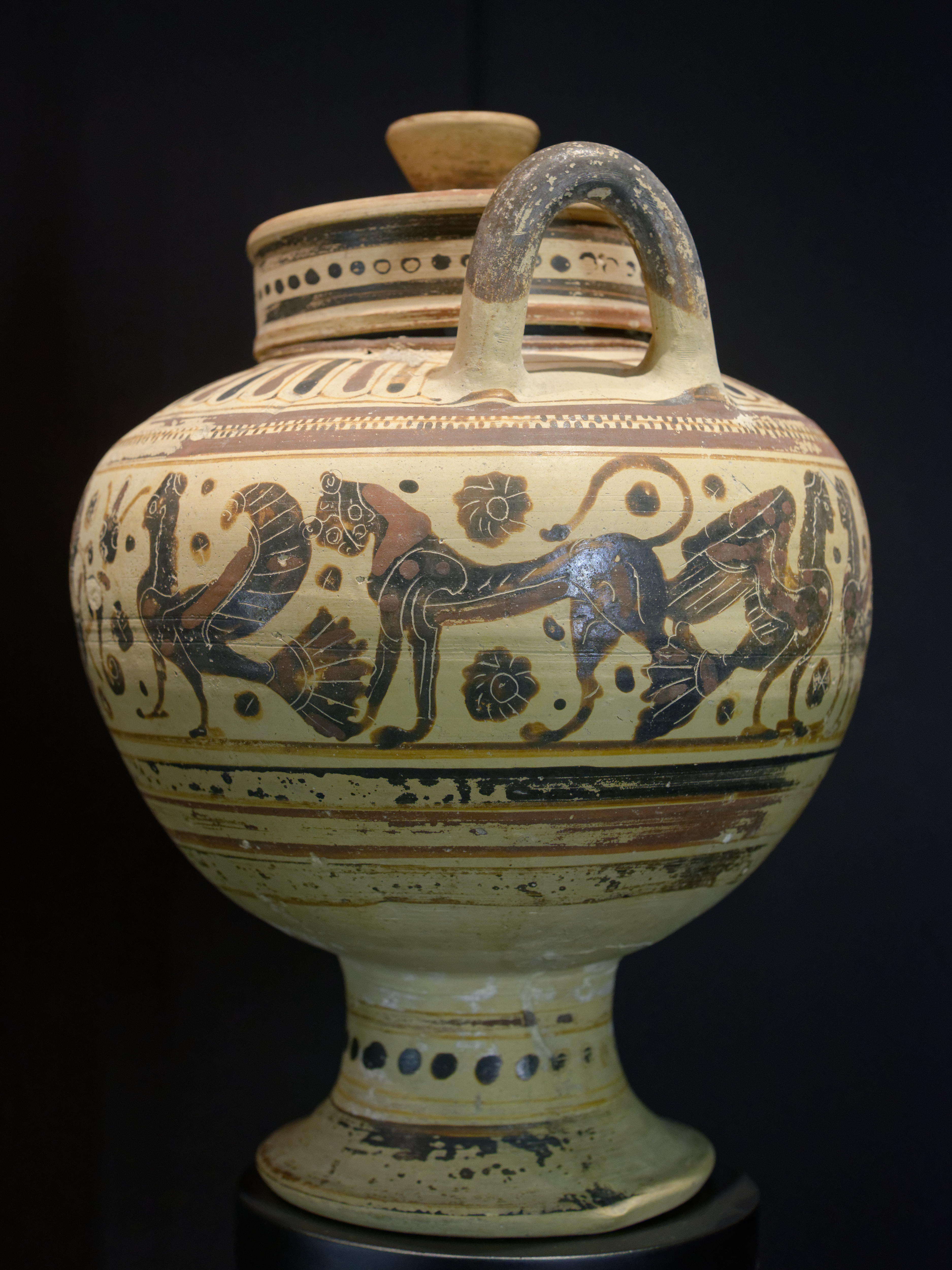 Corinthian stamnos.